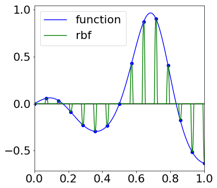 When using radial basis function interpolation to approximate functions, one often must tune a parameter. This shows a case where the parameter is chosen to be large, and (while it interpolates) yields a poor approximation.